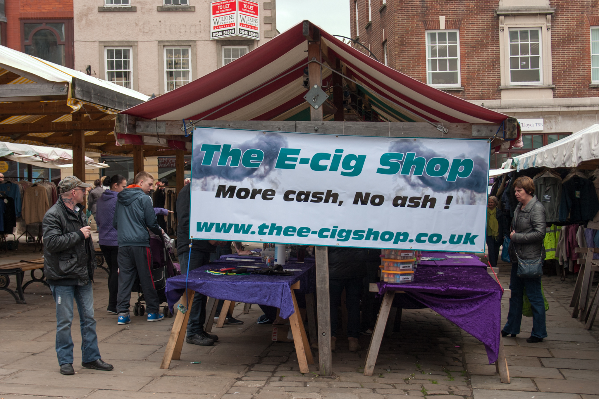 The E-Cig revolution gathers momentum